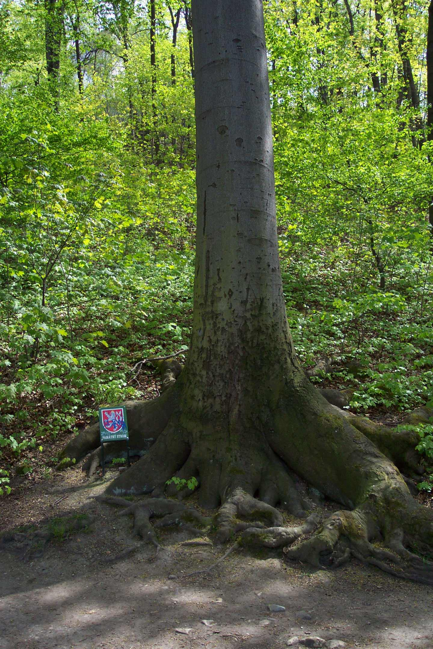 Prague, Liboc, the Hvězda park